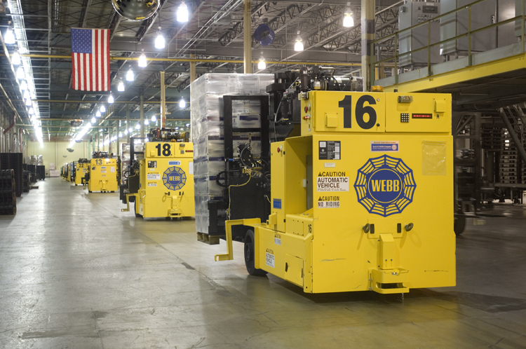 Courtesy of the Jervis B. Webb Company, Sarah Carlson, Marketing Director, 2007